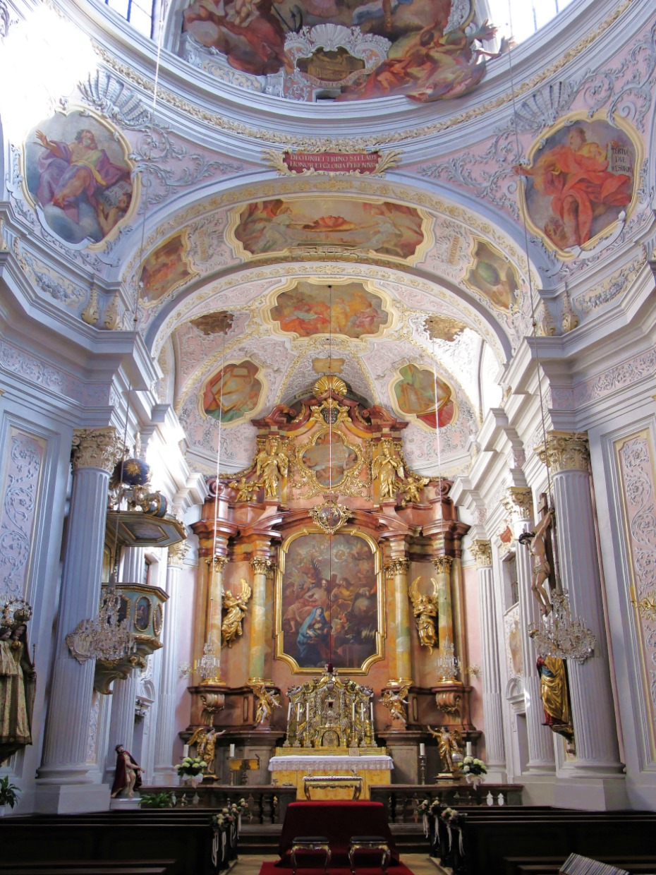 Munich, Church Dreifaltigkeitskirche